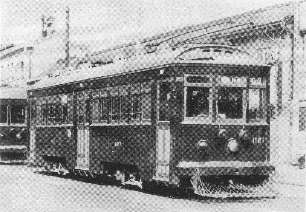 Osaka City Tram #1187